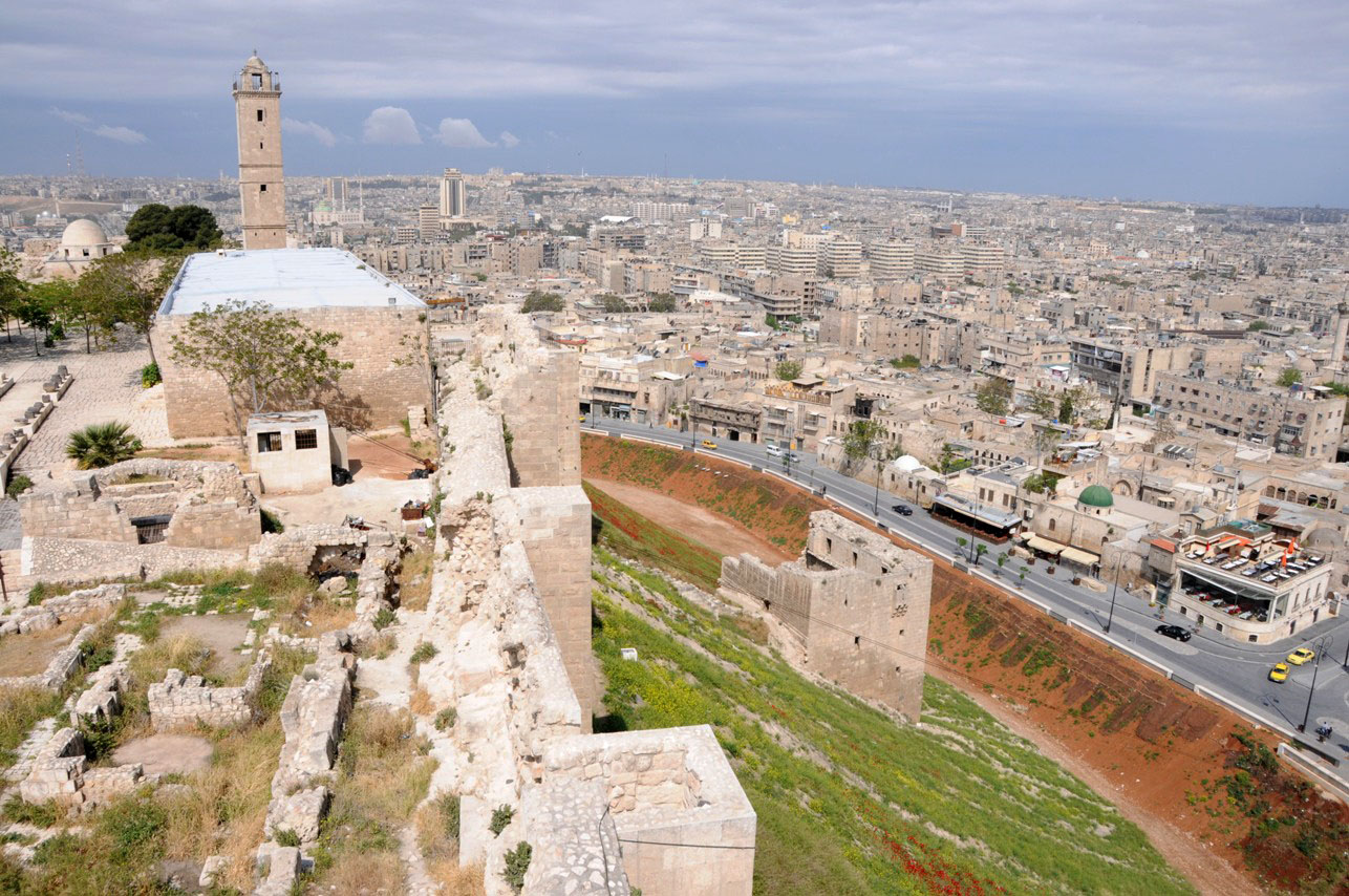 Ancinet Aleppo from the Citadel.